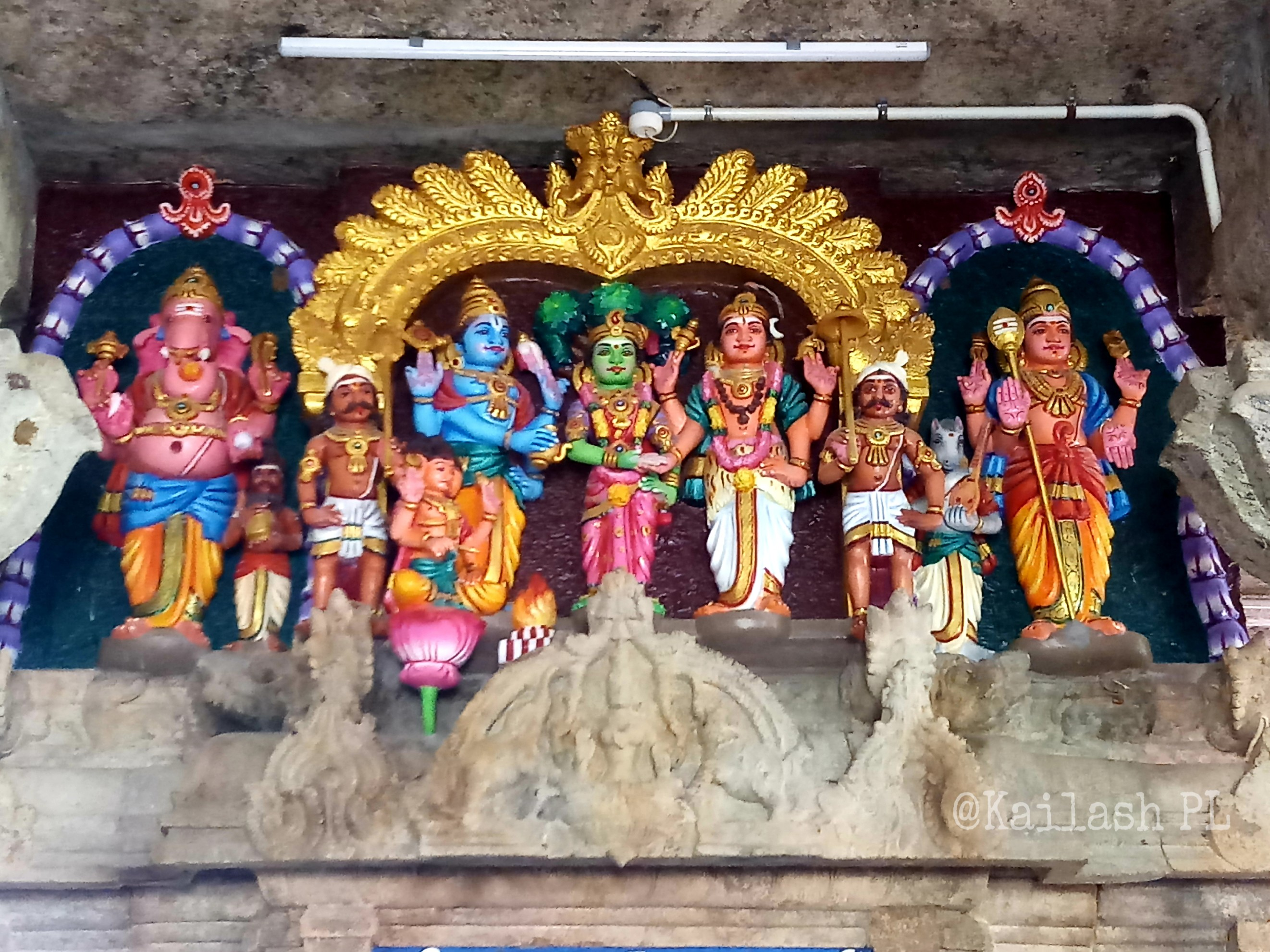 நான் எடுத்த என்னுடைய புகைப்படத்தை நான் பதிவிடுகிறேன்